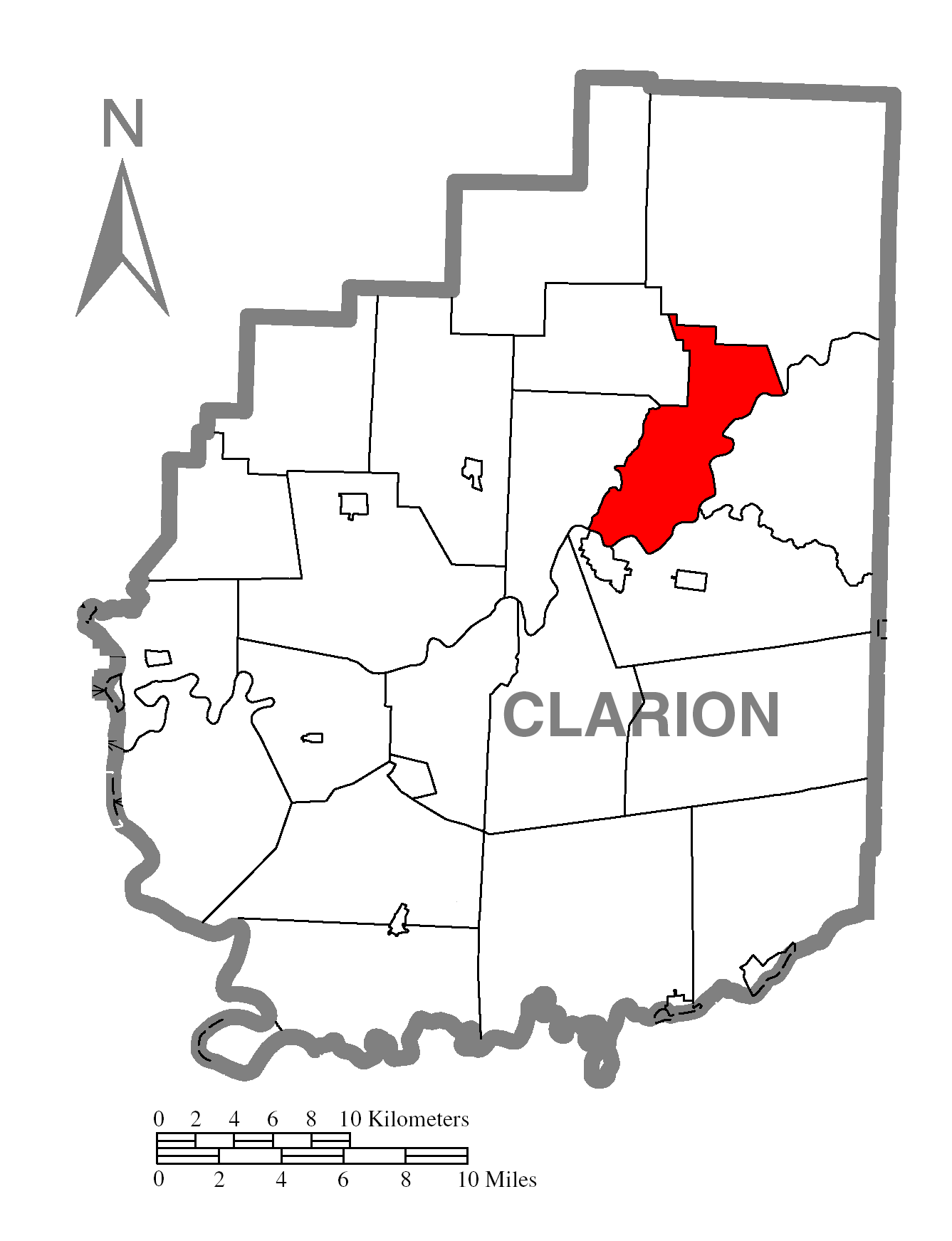 A map of Clarion County showing Highland Township, Pennsylvania (alternate) highlighted on the map.